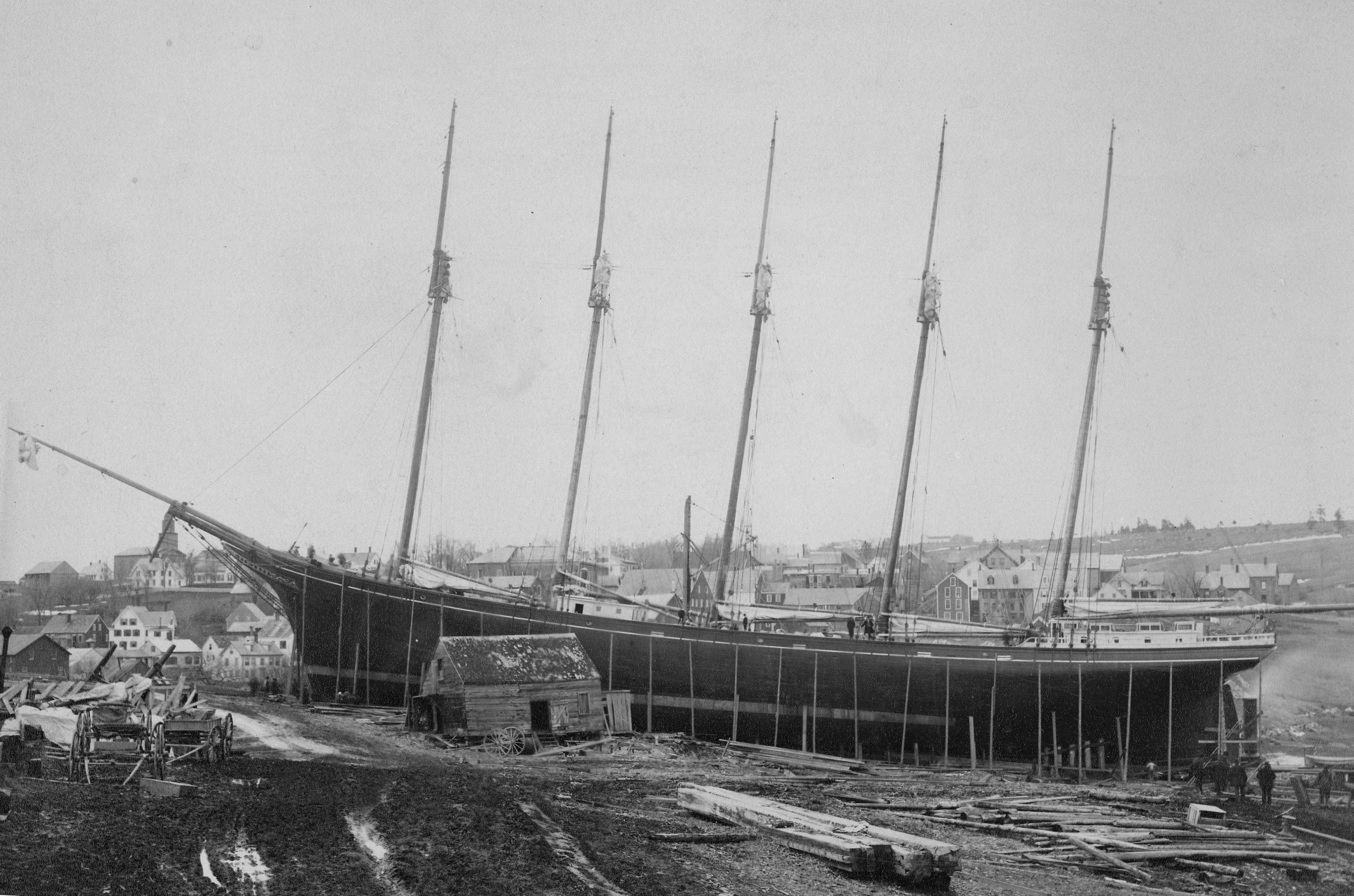 The schooner Governor Ames preparing for launch, Leavitt-Storer Shipyard, Waldeboro, Maine. The Governor Ames was the first five-masted schooner built on the East Coast. She later sank off Cape Hatteras, North Carolina, in December 1909, drowning 11 sailors.